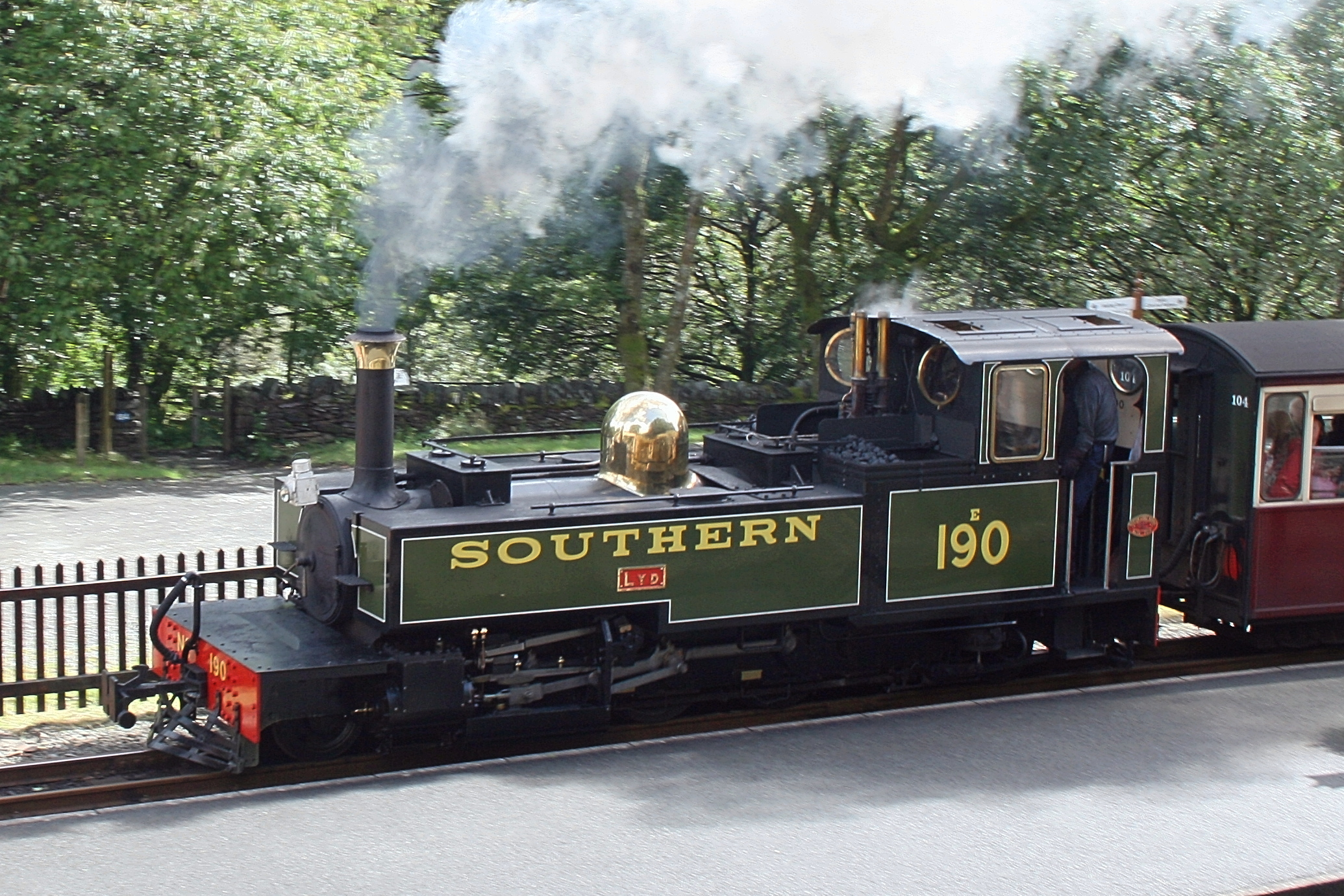 2-6-2 tank engine Lyd entering Tan-y-Bwlch station on the Ffestiniog railway.